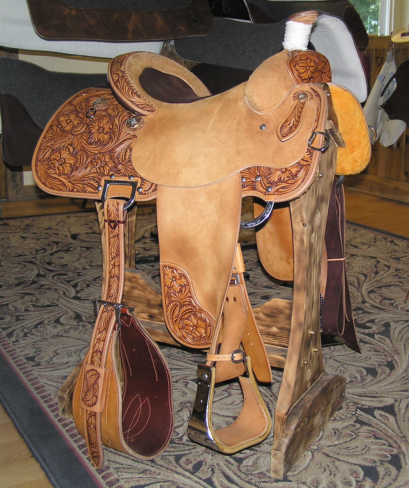 A team roping saddle with decorative tooling. Note horn designed for dally roping, secure seat, and wide supporting back cinch. Made by Jeffers, image taken with staff permission at Three Forks Saddlery, Three Forks, MT